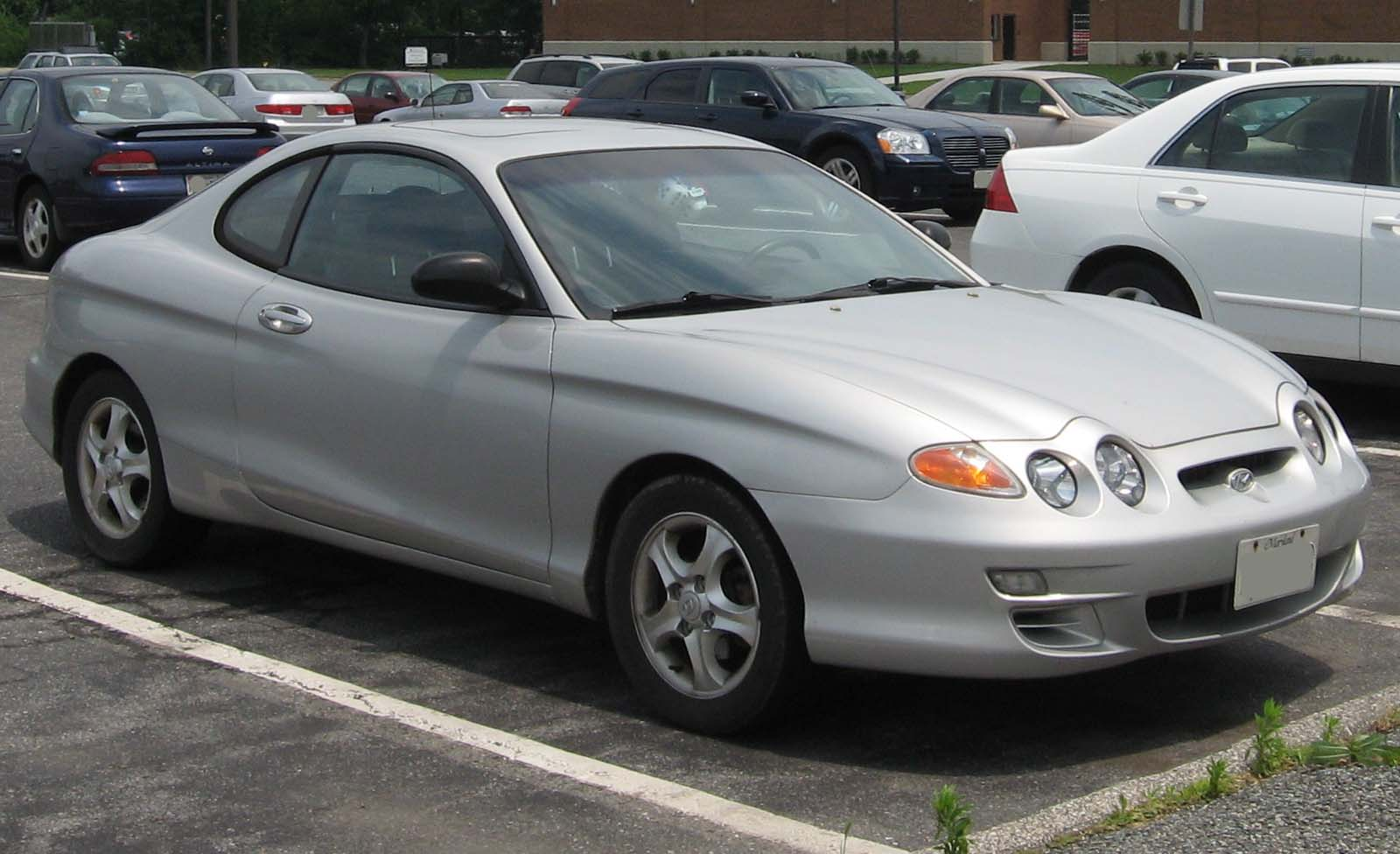 1999-2001 Hyundai Tiburon photographed in USA.